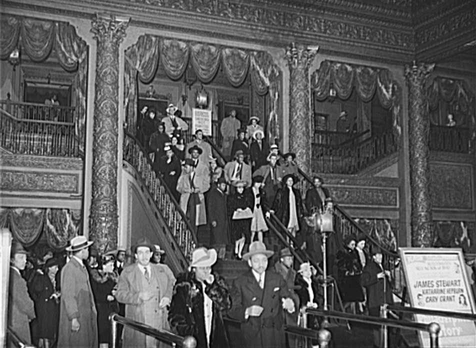 Crowd coming out of Regal movie theater. Southside of Chicago, Illinois.